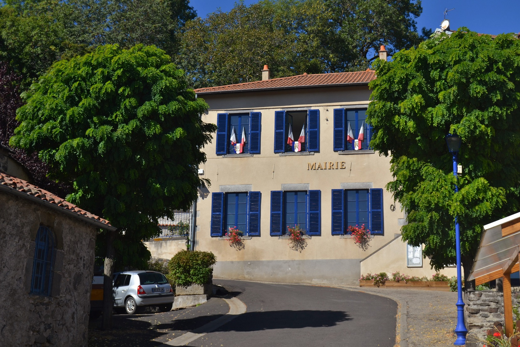 La Mairie